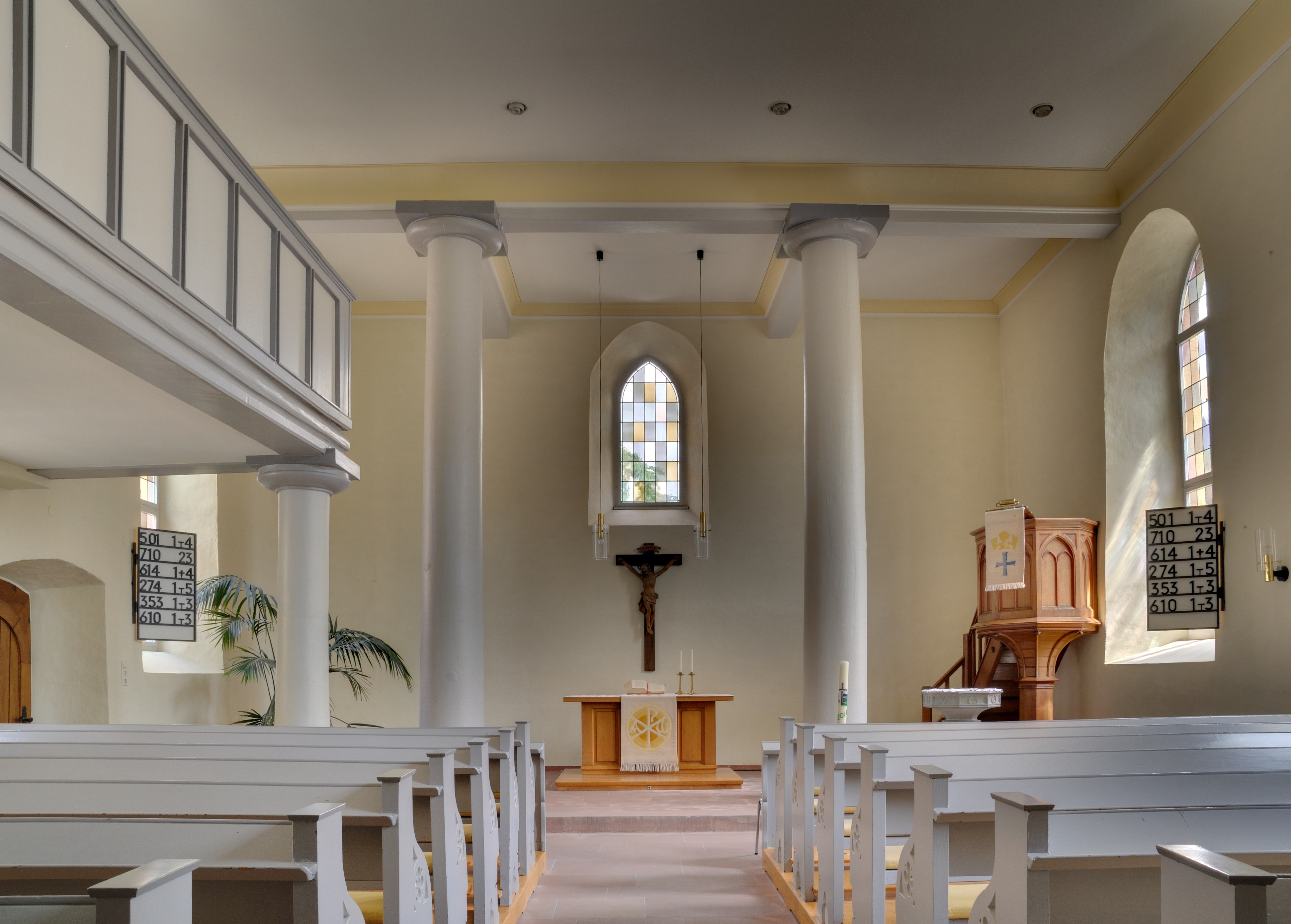 Hausen im Wiesental: protestant church